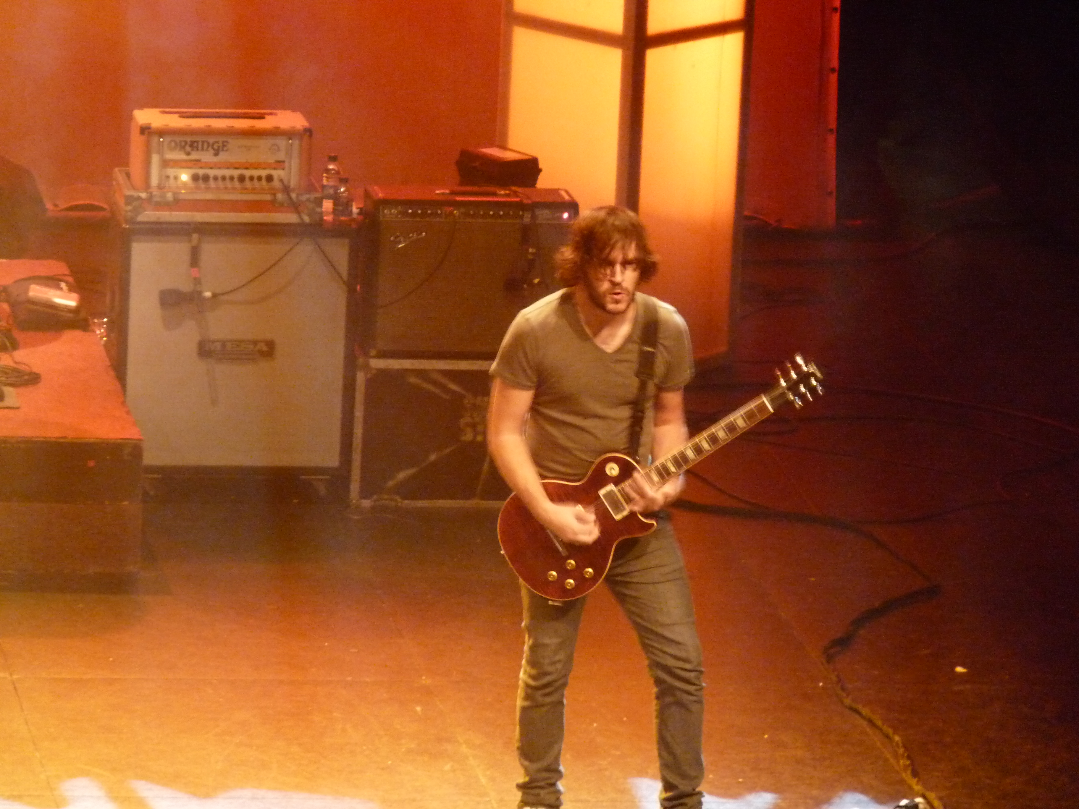 Neil Boshart of Silverstein concentrates on his music in Glace Bay NS, 3 October 2009